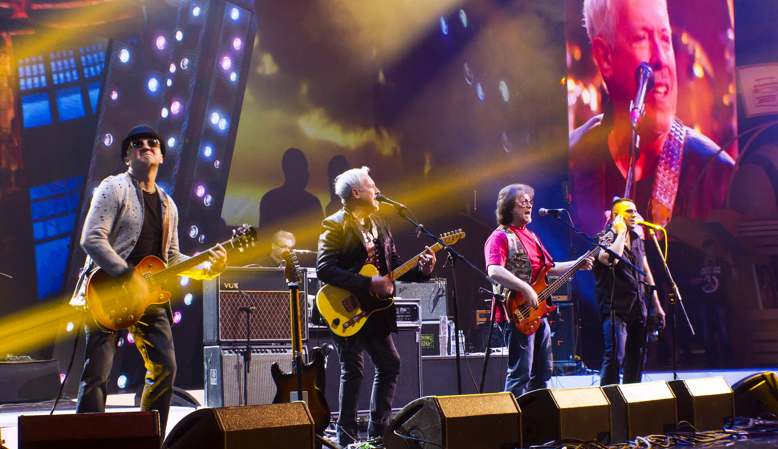 Mashina Vremeni (Time Machine) in Moscow, VTB Ice Palace